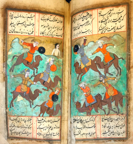 Fuzuli. leyli ve mecnun